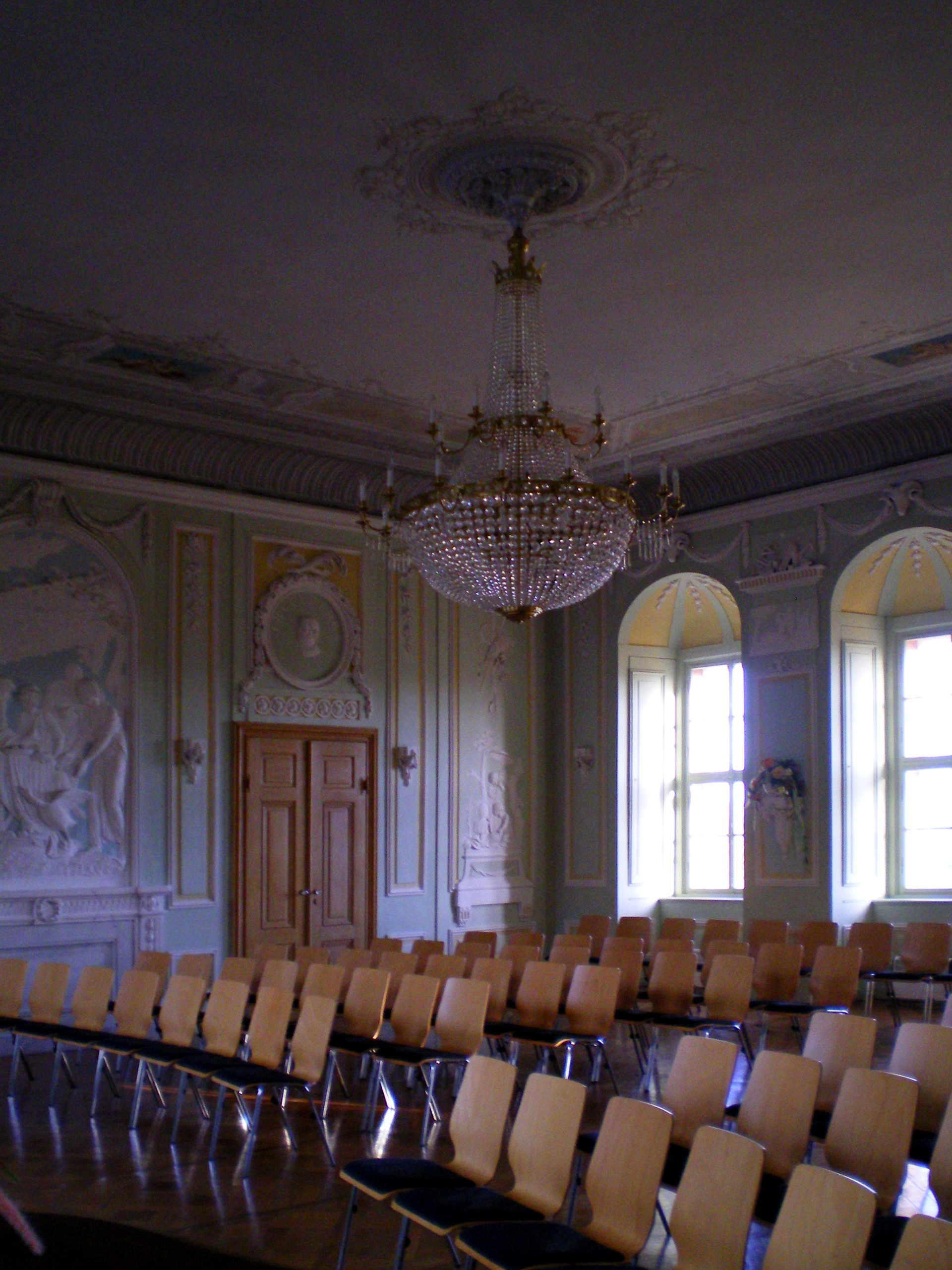 Ballroom in castle of Wolkenburg, Limbach-Oberfrohna near Chemnitz/Saxony